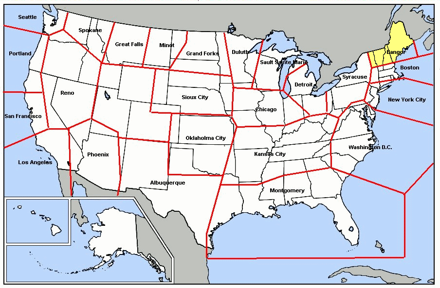 Map of Bangor Air Defense Sector (Air Defense Command)